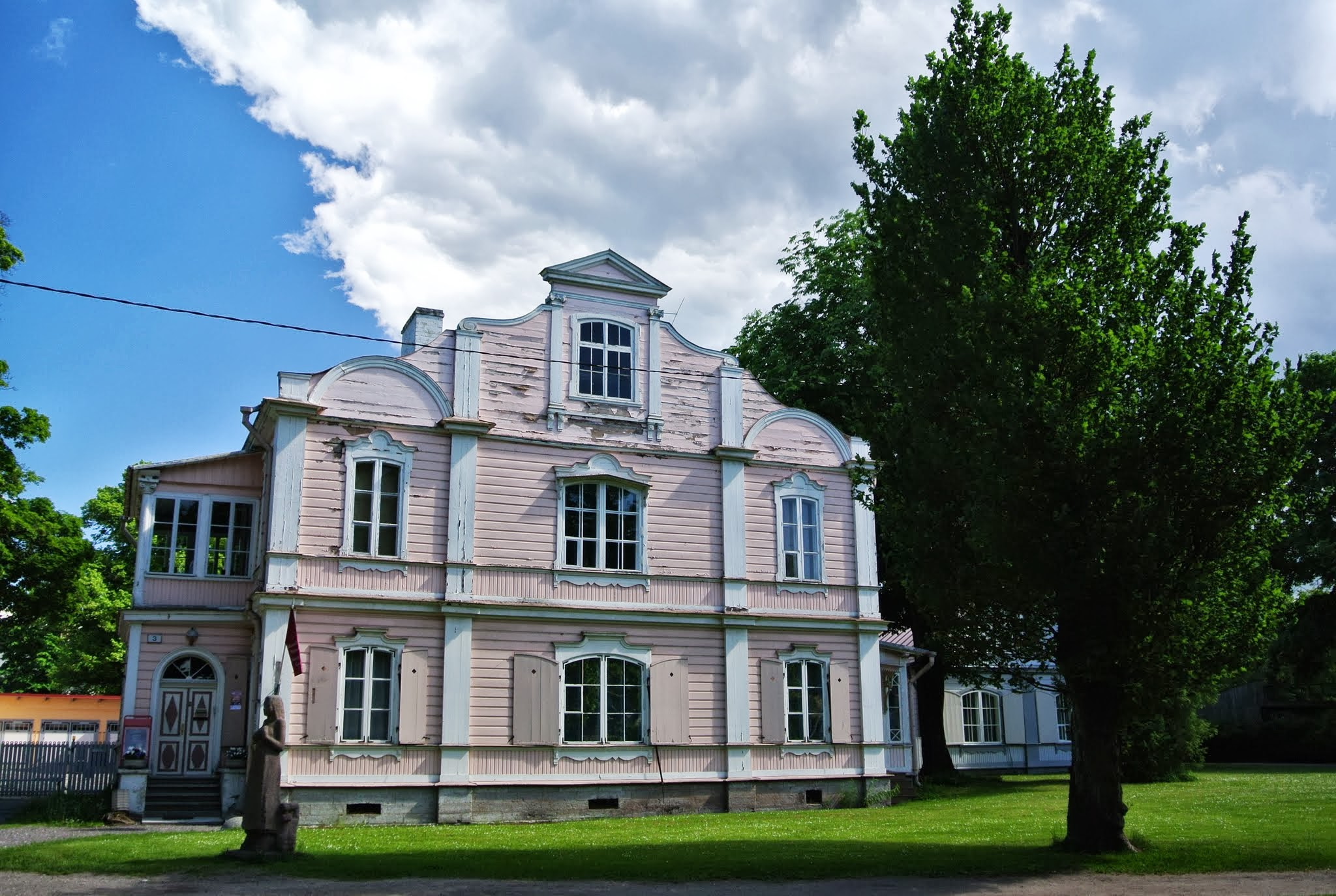 Kadriorg, Tallinn, Estonia